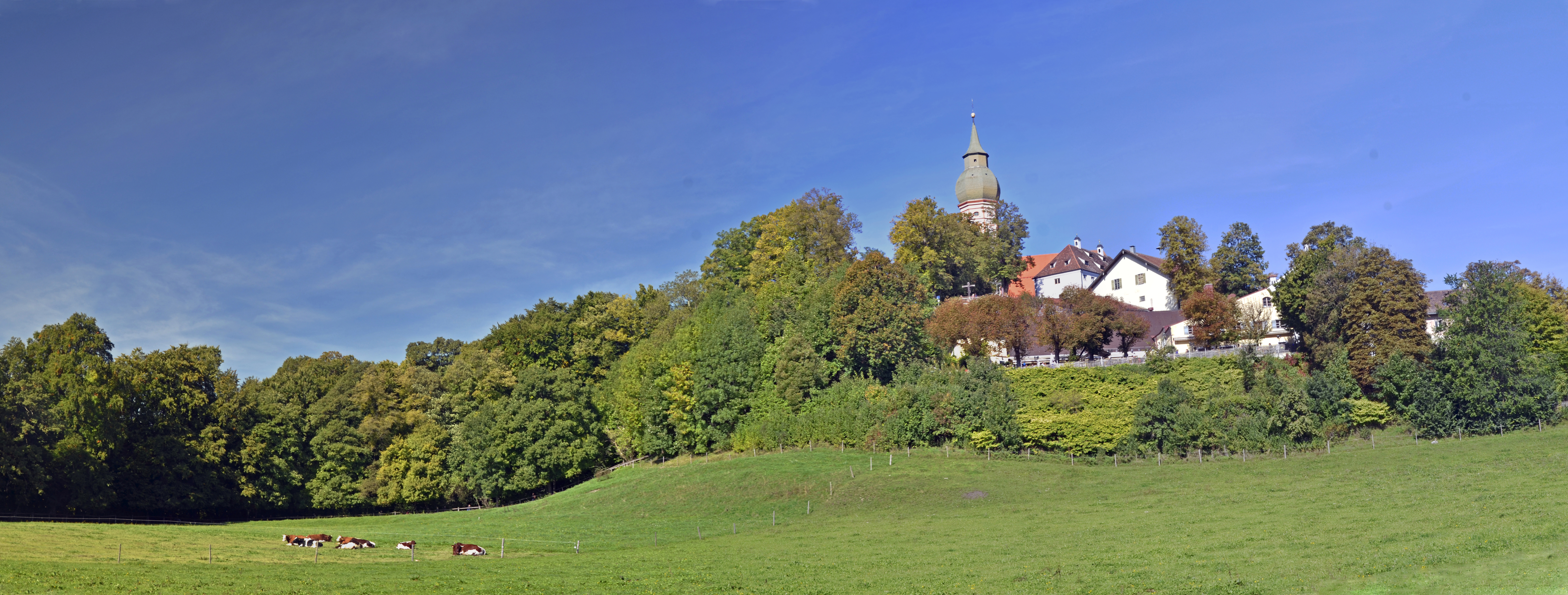 Monastery of Andechs (View from the South)